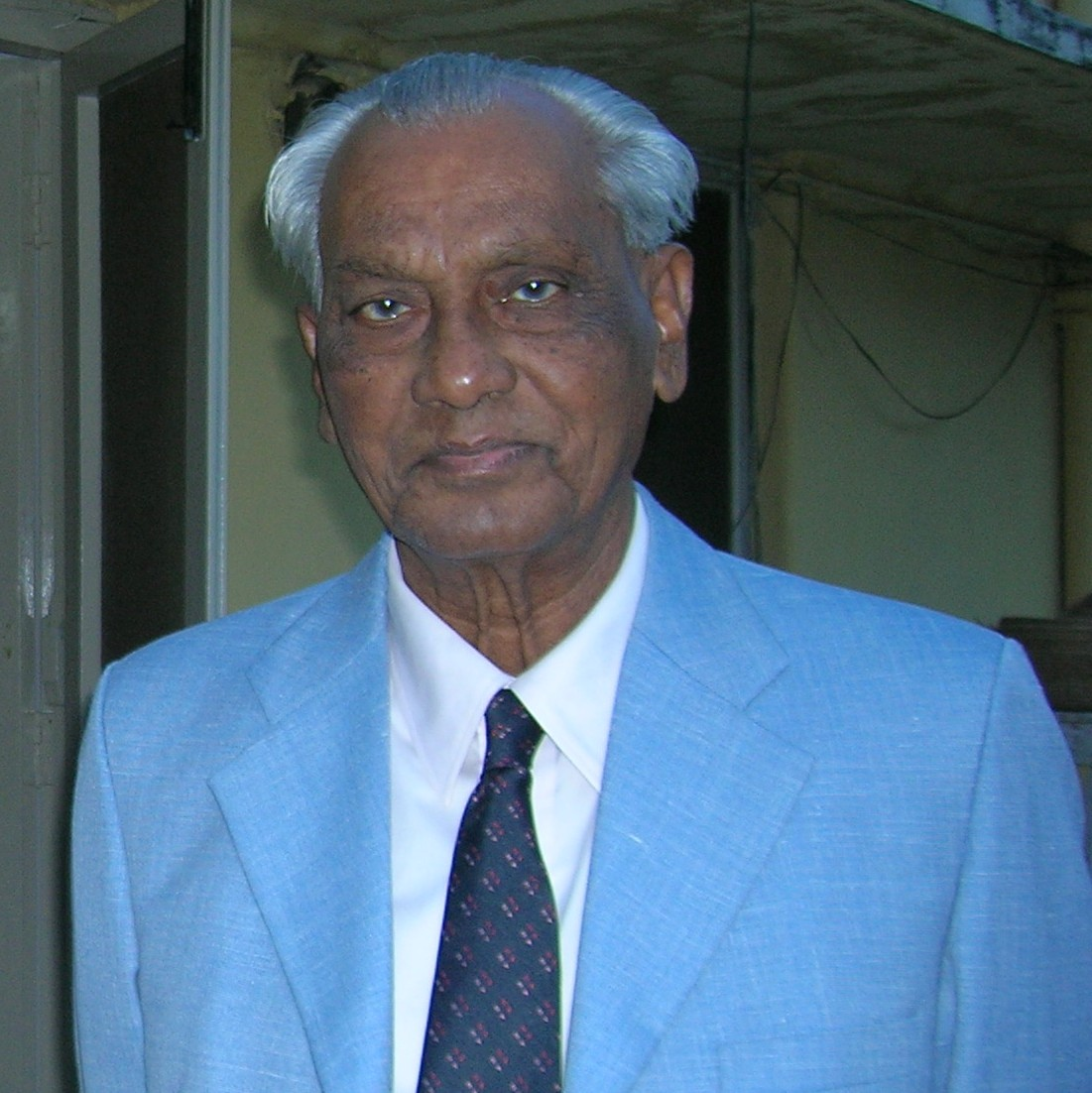 Prof Maddela Abel in 2006, Hyderabad, India